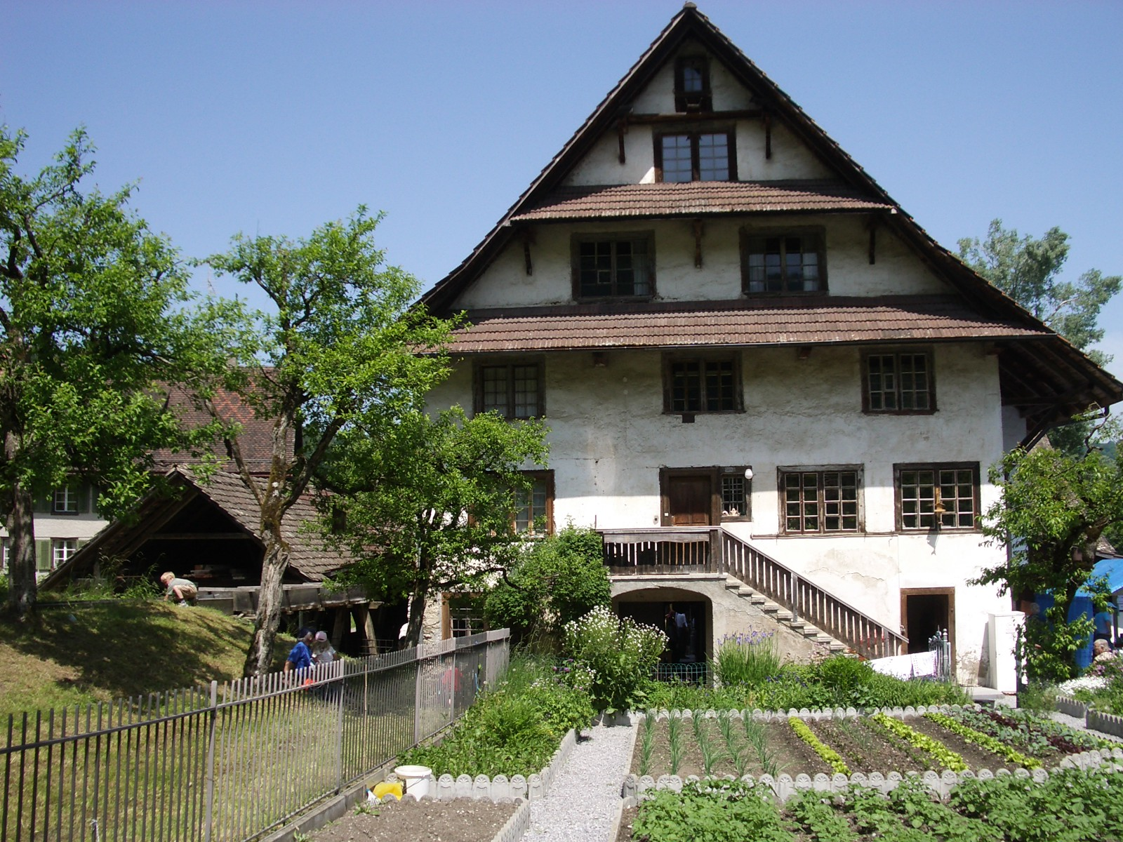 Stallikon ZH, Switzerland